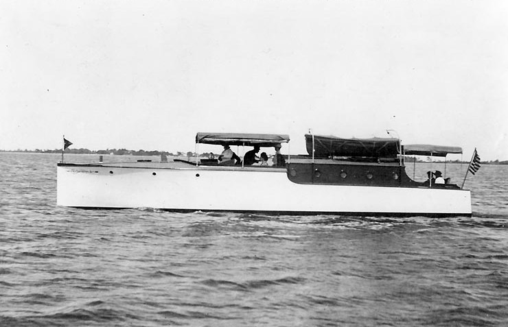 Private motorboat Zigzag in Florida waters in 1916-1917 before her 1917-1919 U.S. Navy service as patrol vessel USS Zigzag (SP-106)